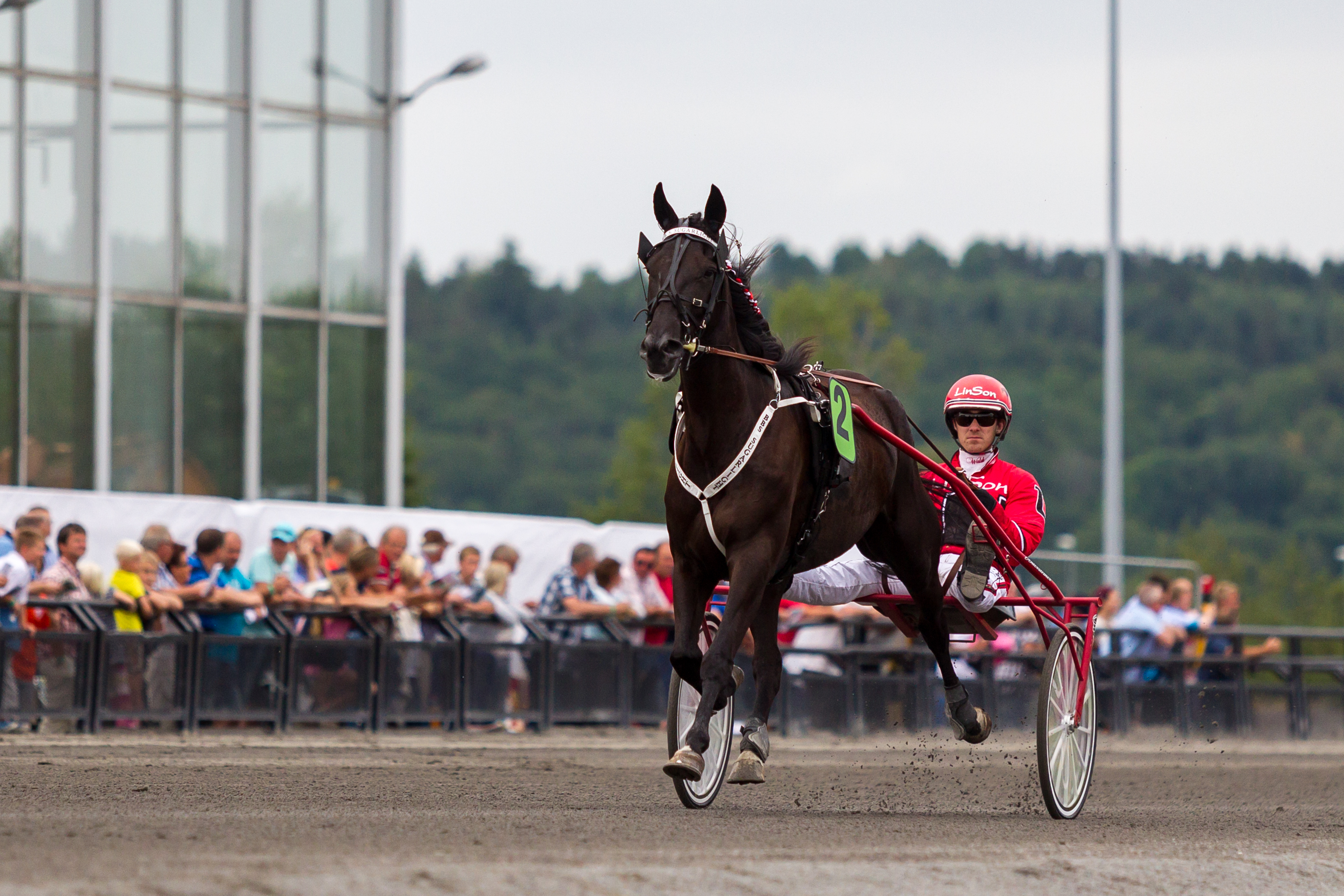 B.B.S. Sugarlight and driver Johan Untersteiner at Jarlsberg travbane. 2014-07-13.